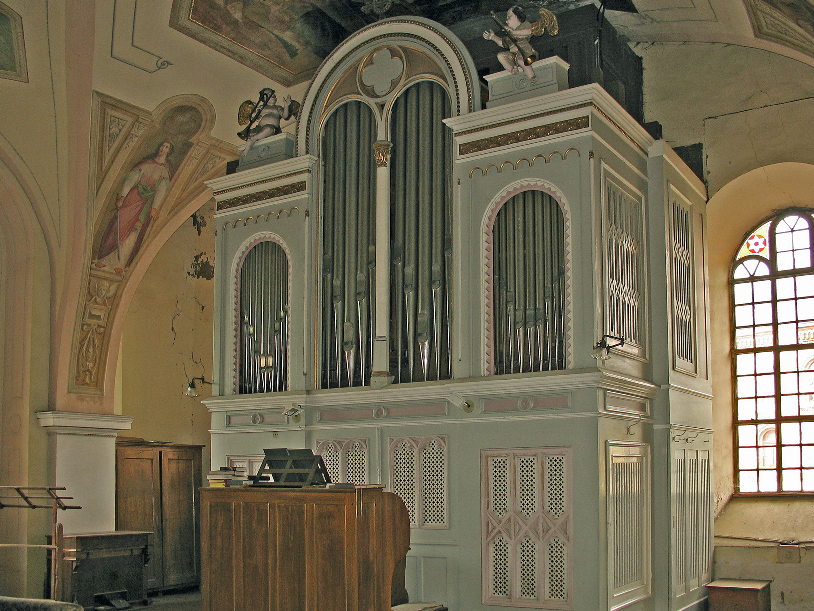 An organ in Rumburk's churs st. Bartholomew